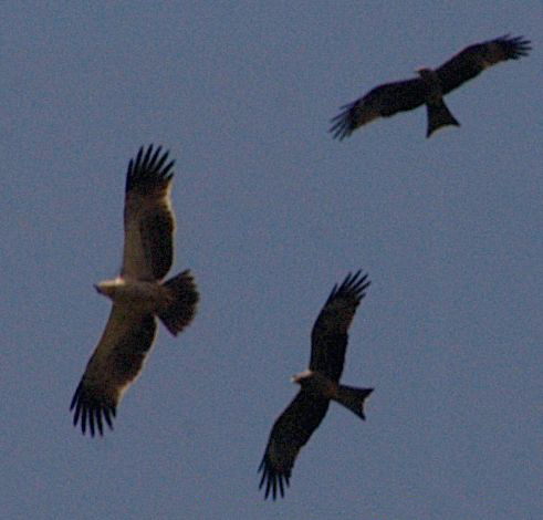 Aquila nipalensis and two Milvus migrans, India